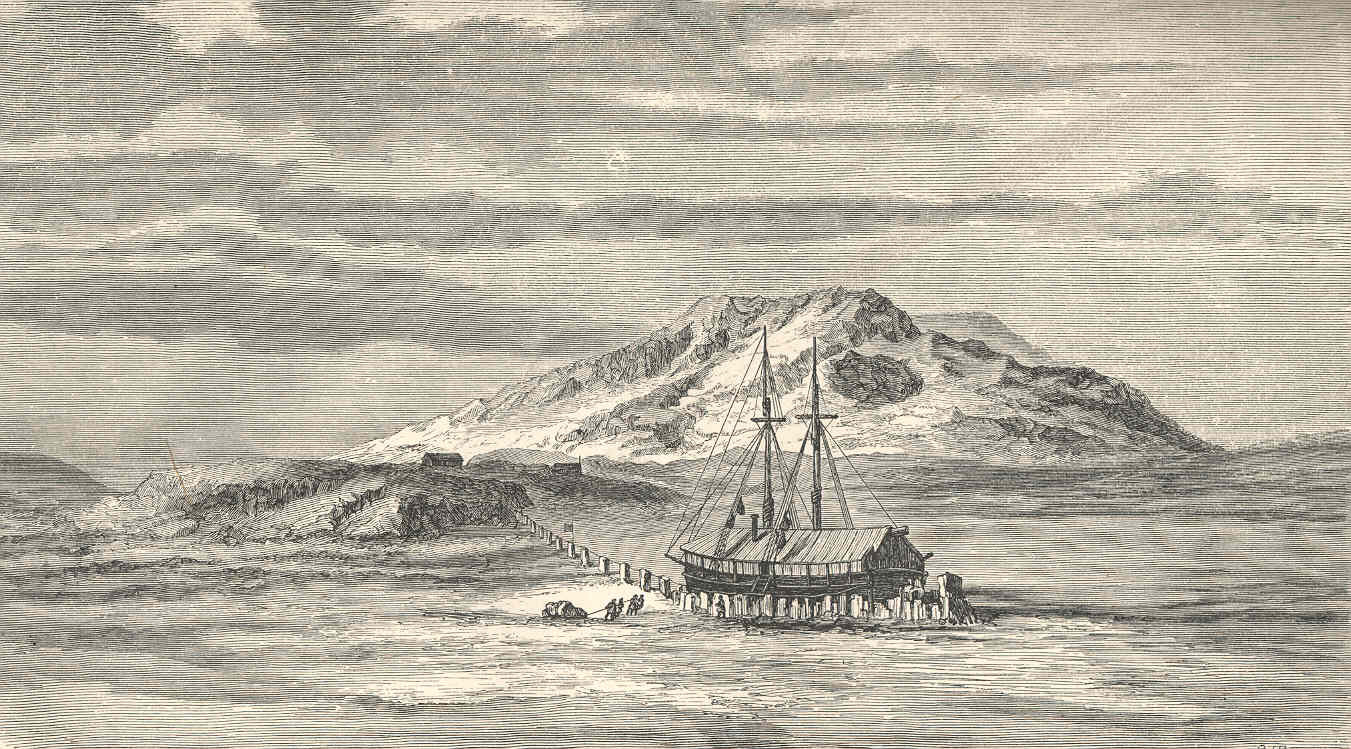 Germania on Sabine Island Subject: Sabine Island (Greenland), Germania (Ship) Geographic Subject: Greenland--Sabine Island Tag: Vessels, Polar